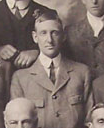 C.G. Timms with the British Isles, later the British and Irish Lions, rugby union team on their tour of South Africa in 1910